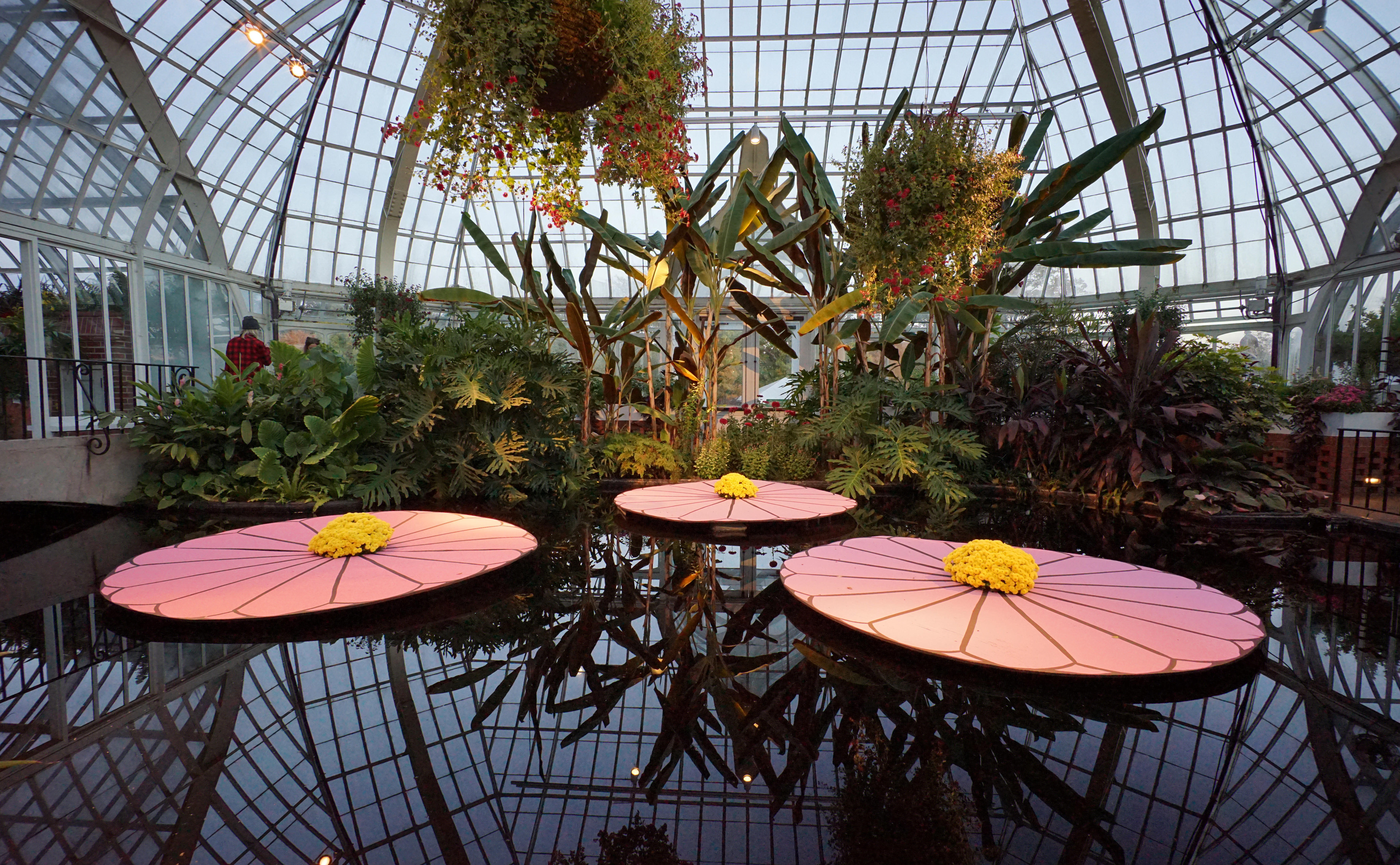 The Phipps Conservatory and Botanical Gardens is a complex of buildings and grounds set in Schenley Park, Pittsburgh, Pennsylvania. Founded in 1893, the gardens serve to educate and entertain the people of Pittsburgh with formal gardens.